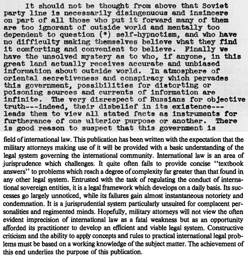 Double sentence-spaced typewriter text (1946) vs. single-spaced printed text (1979)